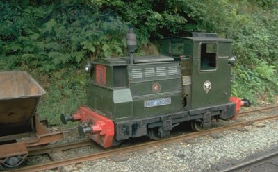 photo of Talyllyn Railway No. 5 diesel "Midlander".